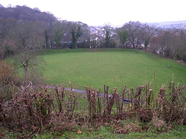 Plympton Castle. Looking down on the rectangular bailey area of the castle from the motte mound.